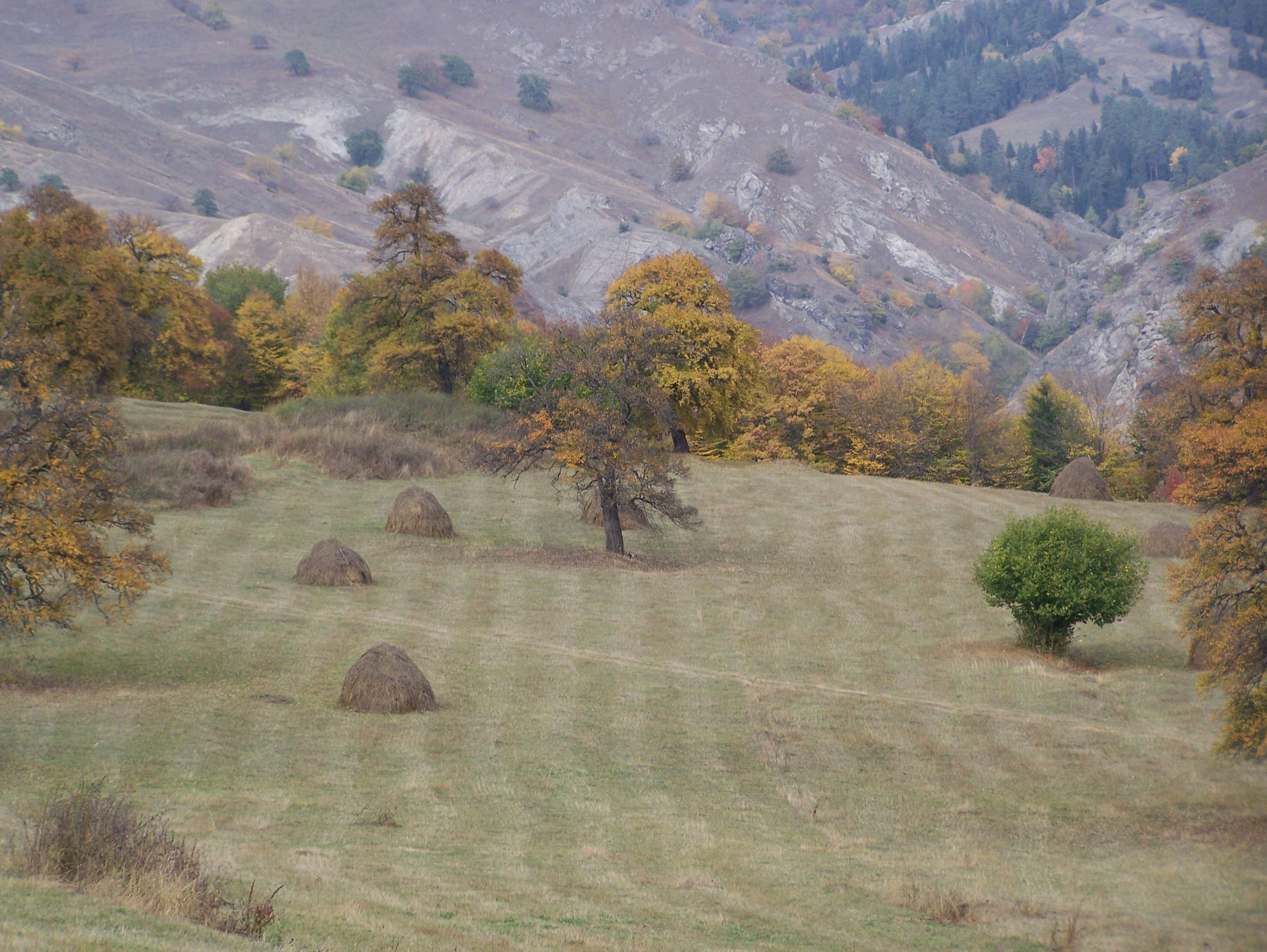 Algeti National Park (14 October 2007). 031